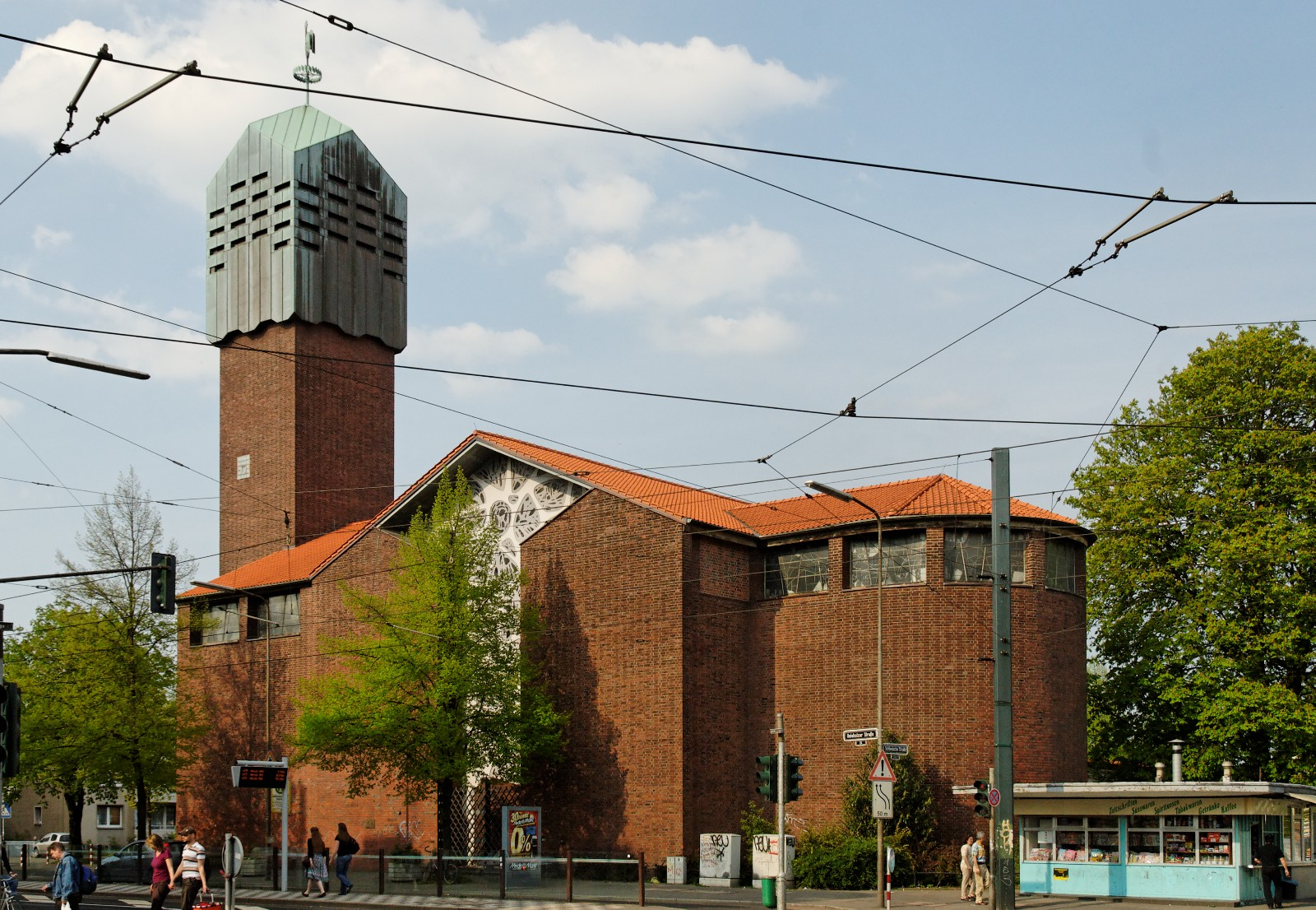 Saint Michael in Düsseldorf-Bilk, Germany